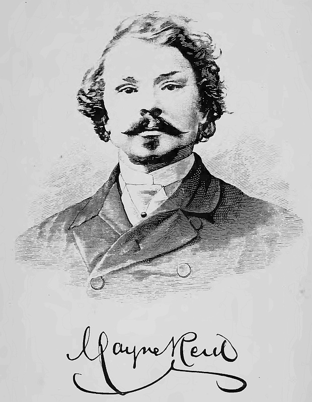 Portrait of a writer with a signature - Mayne Reid (1818-1883)